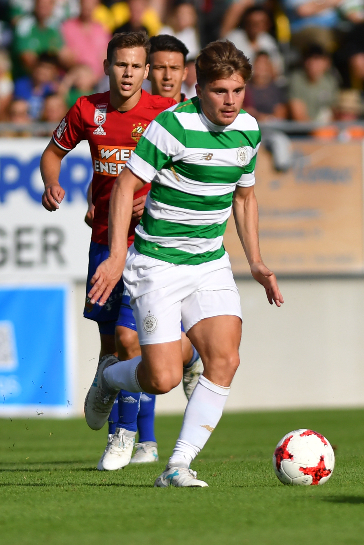 1/7/2017, Amstetten, Austria, sports, soccer, Tipico Fussball Bundesliga - preparation match SK Rapid Wien vs Celtic Glasgow. Image shows Louis Schaub (SCR) and James Forrest (Celtic FC).